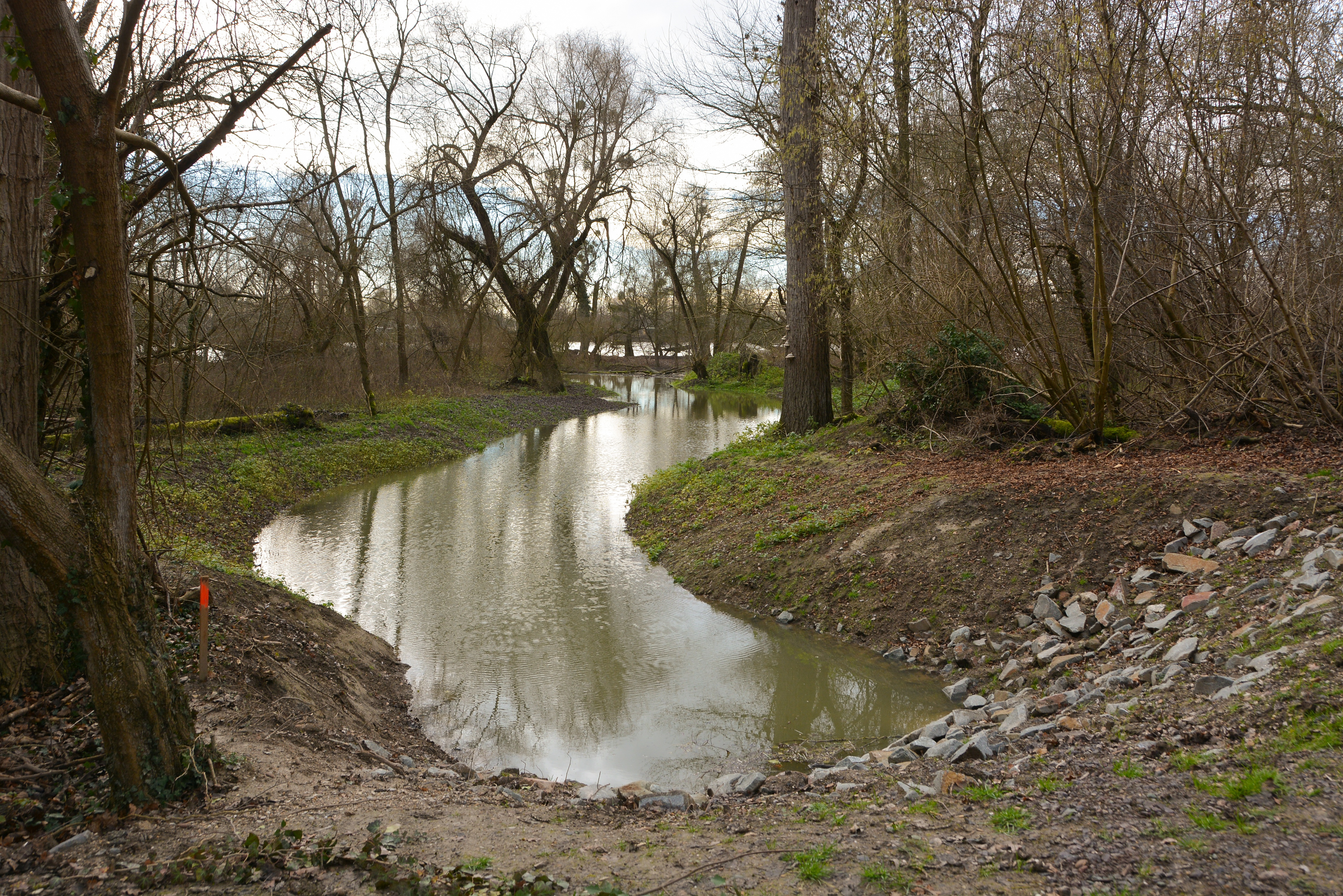 Forest park, Mannheim, Germany, small Rhine arm "Schlauch" ("tube"), view into the new connection to "Hagbau-Schlute" in the protected nature area "Bei der Silberpappel" - first time with water in January 2016.